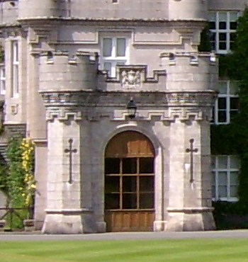 Balmoral Castle. The Royal Standard of Scotland flies over it.